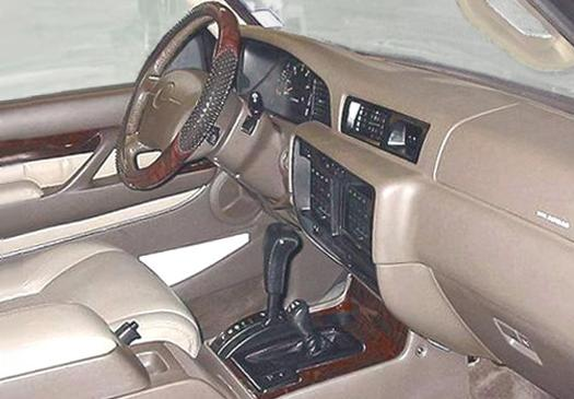 LX 450 interior